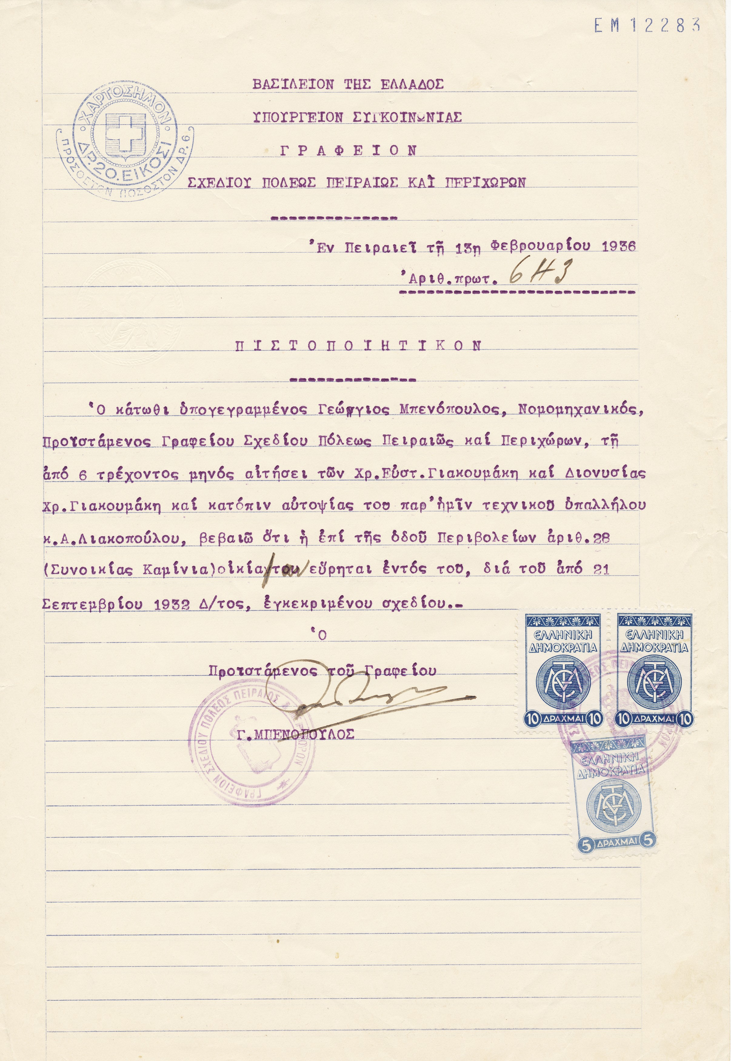 GREECE: A certificate issued by the Planning Office of Piraeus and Suburbs on special revenue paper with additional 25 drachmas revenue stamps.